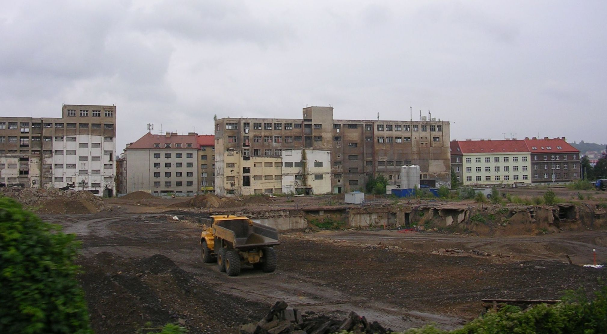 Prague-Vysočany, the Czech Republic.